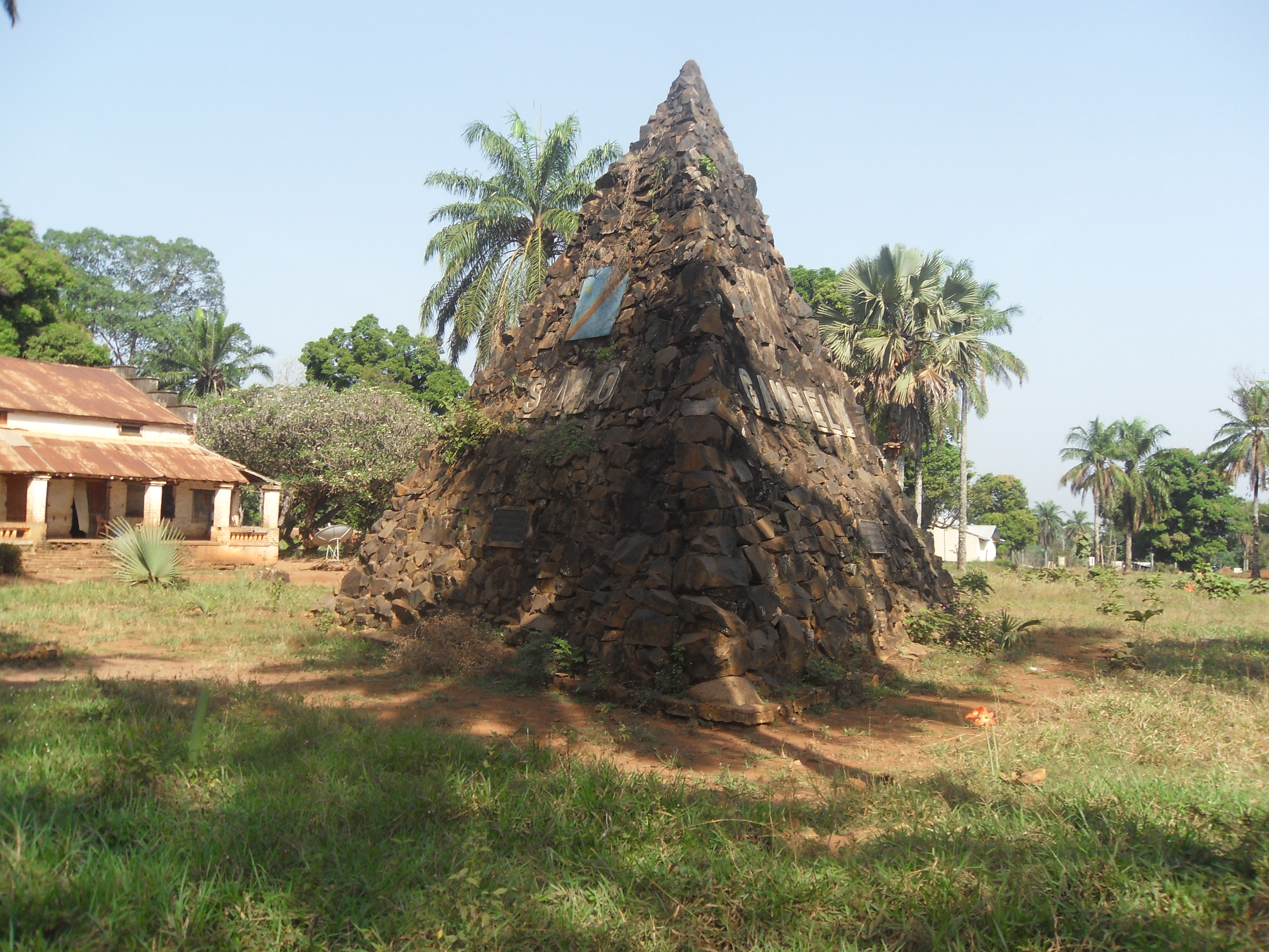 Monument Seconde Guerre Mondiale